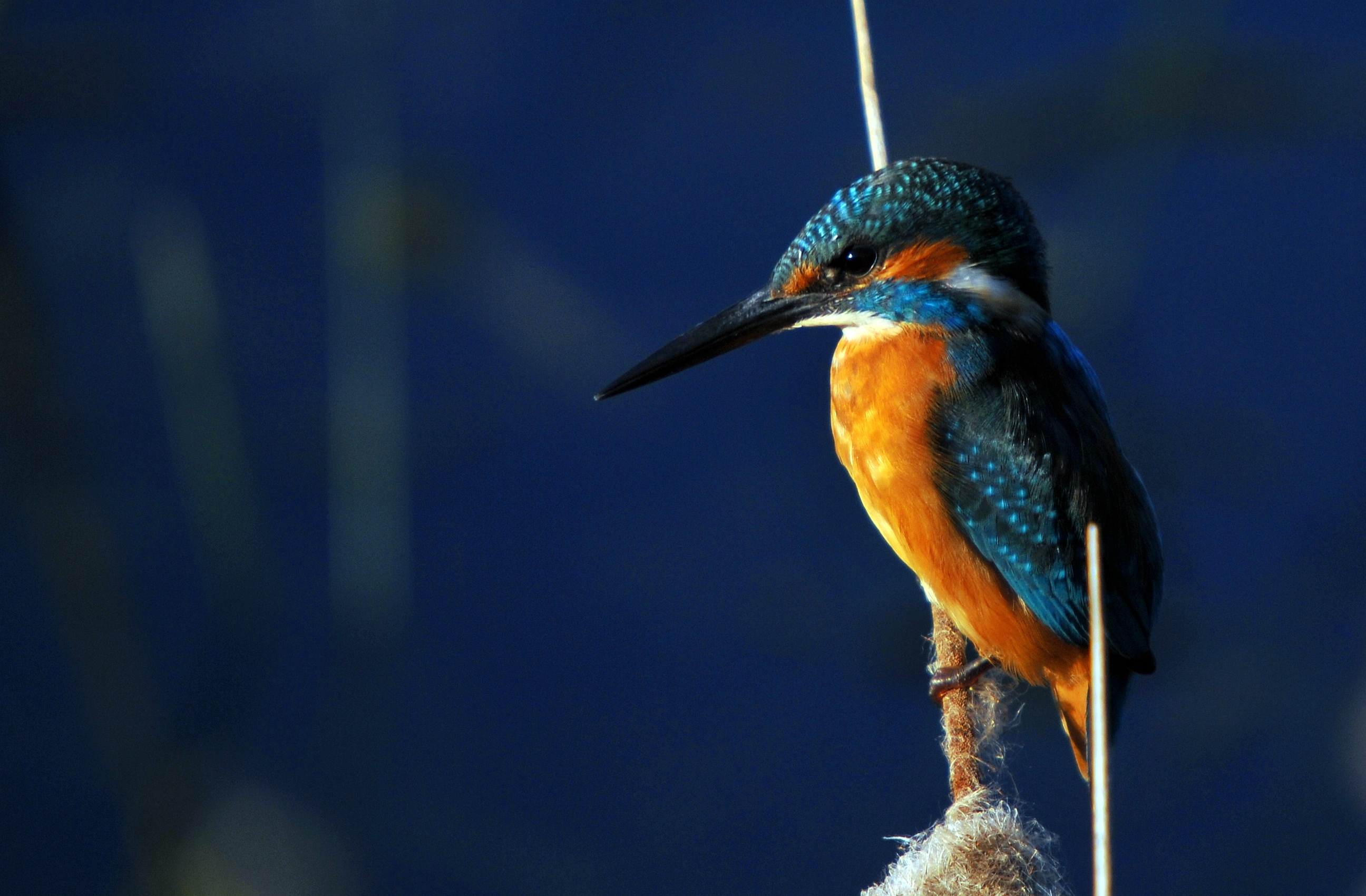 Kingfisher Alcedo atthis, Bismil, Turkey